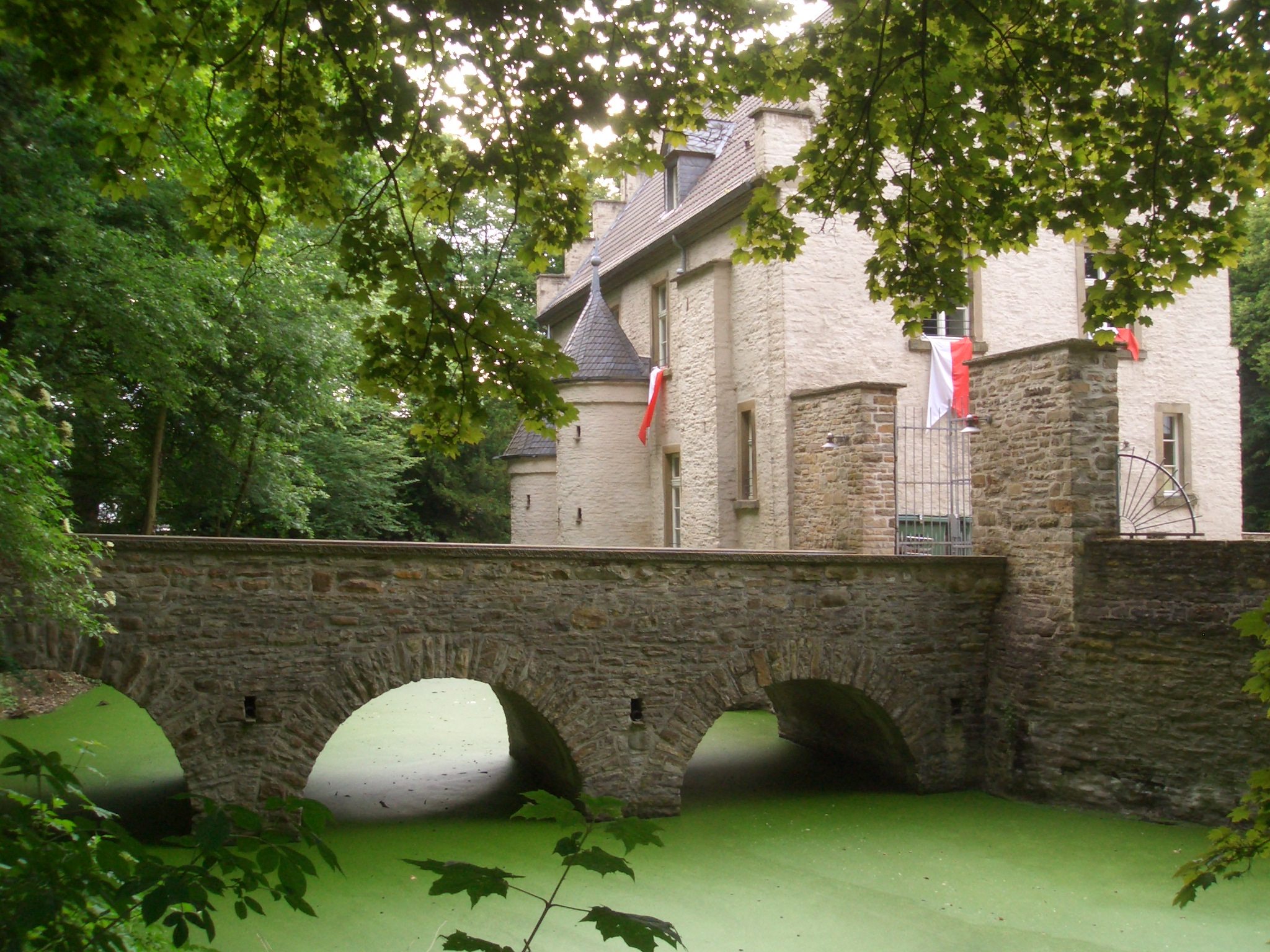 Historical Monument #64 - Moated Castle Werdringen in Hagen This is a photograph of an architectural monument.